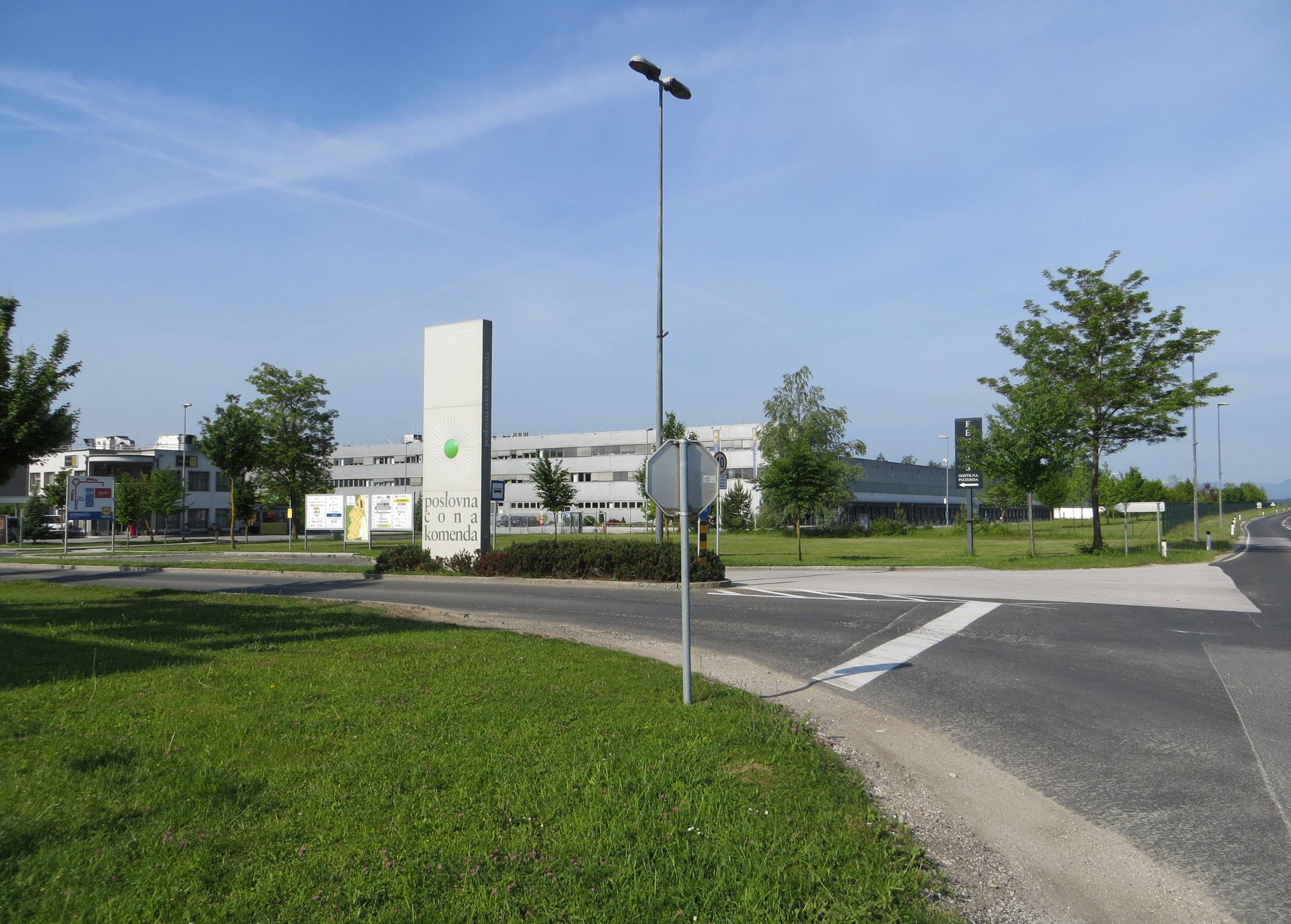 Poslovna Cona Žeje pri Komendi, Municipality of Komenda, Slovenia